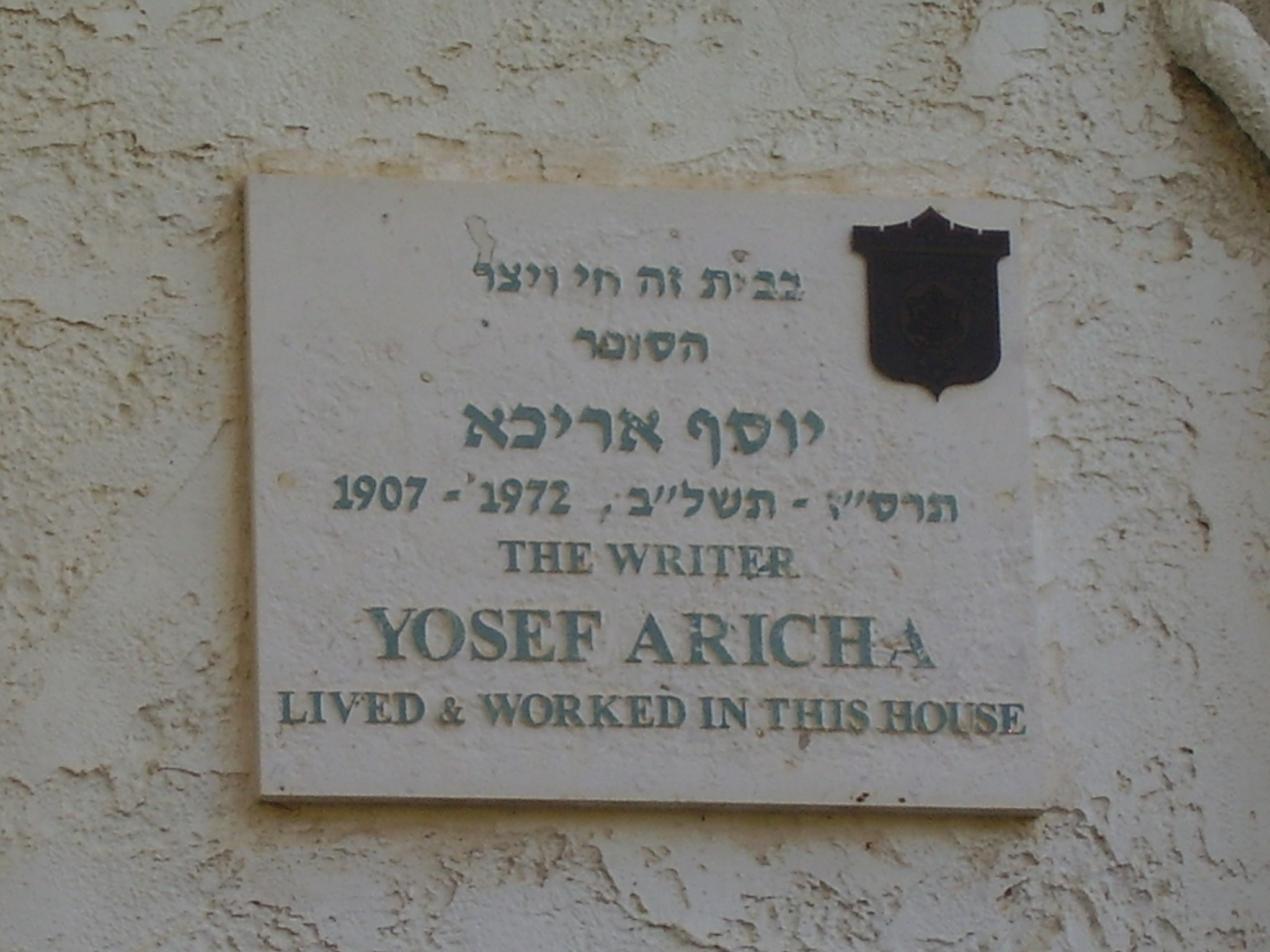 memorial plaque to the writer yosef aricha in tel aviv לוחית זיכרון לסופר יוסף אריכא ברח' קרני 10 בתל אביב